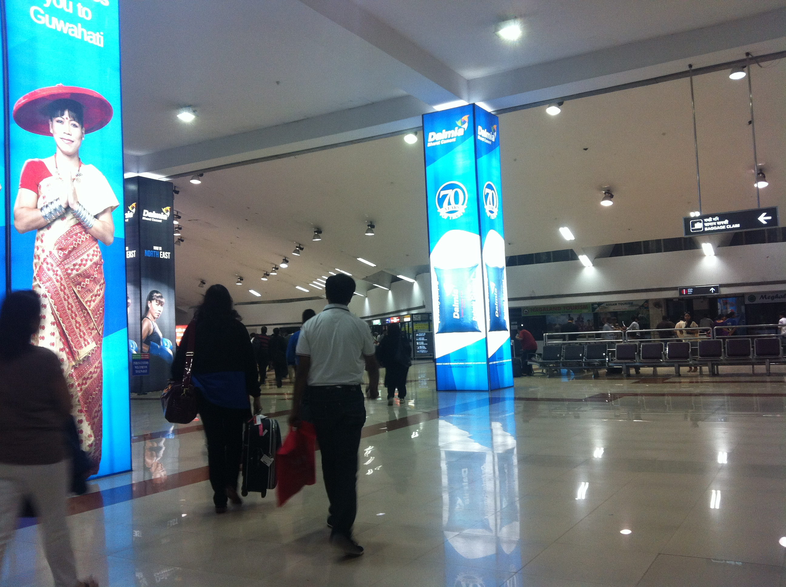 Guwahati Airport Baggage collection belt.